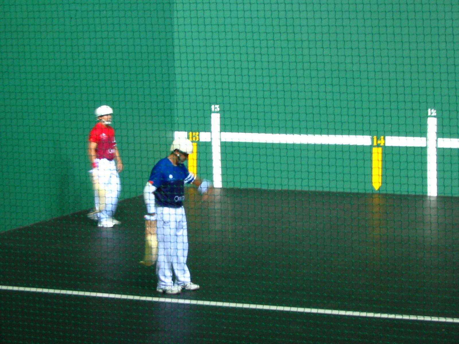 Players on a jai alai court.